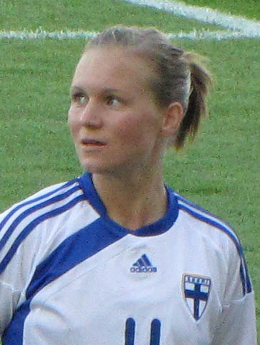 Susanna Lehtinen during Finland - Northern Ireland friendly match.